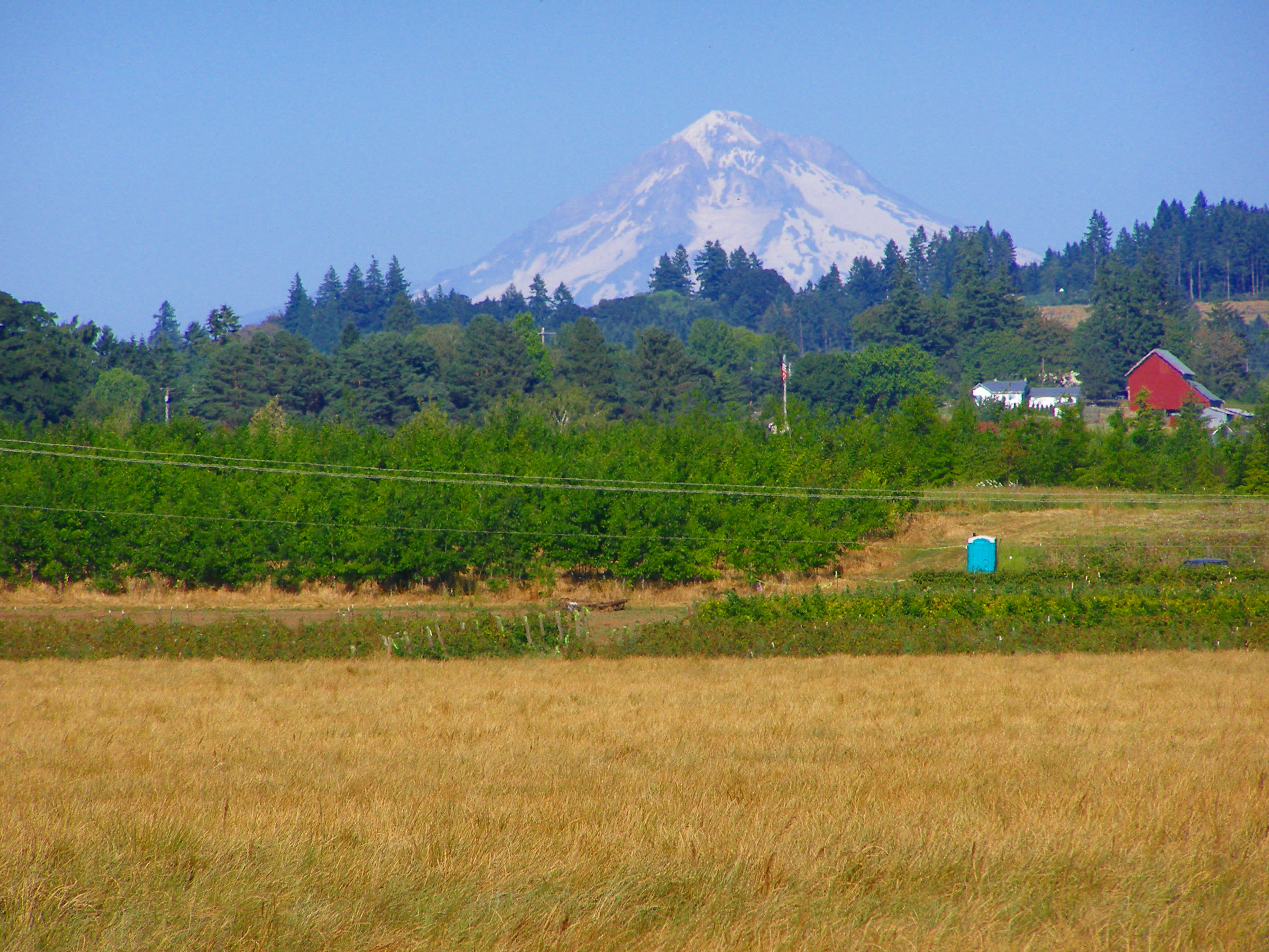 A photo of Mount Hood, Oregon taken from the Molalla Forest Road, Canby, Oregon on July 7, 2007